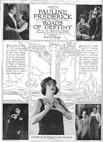 For article Roads of Destiny, this is a theatrical poster for the 1921 film Roads of Destiny, and was first published before 1923.